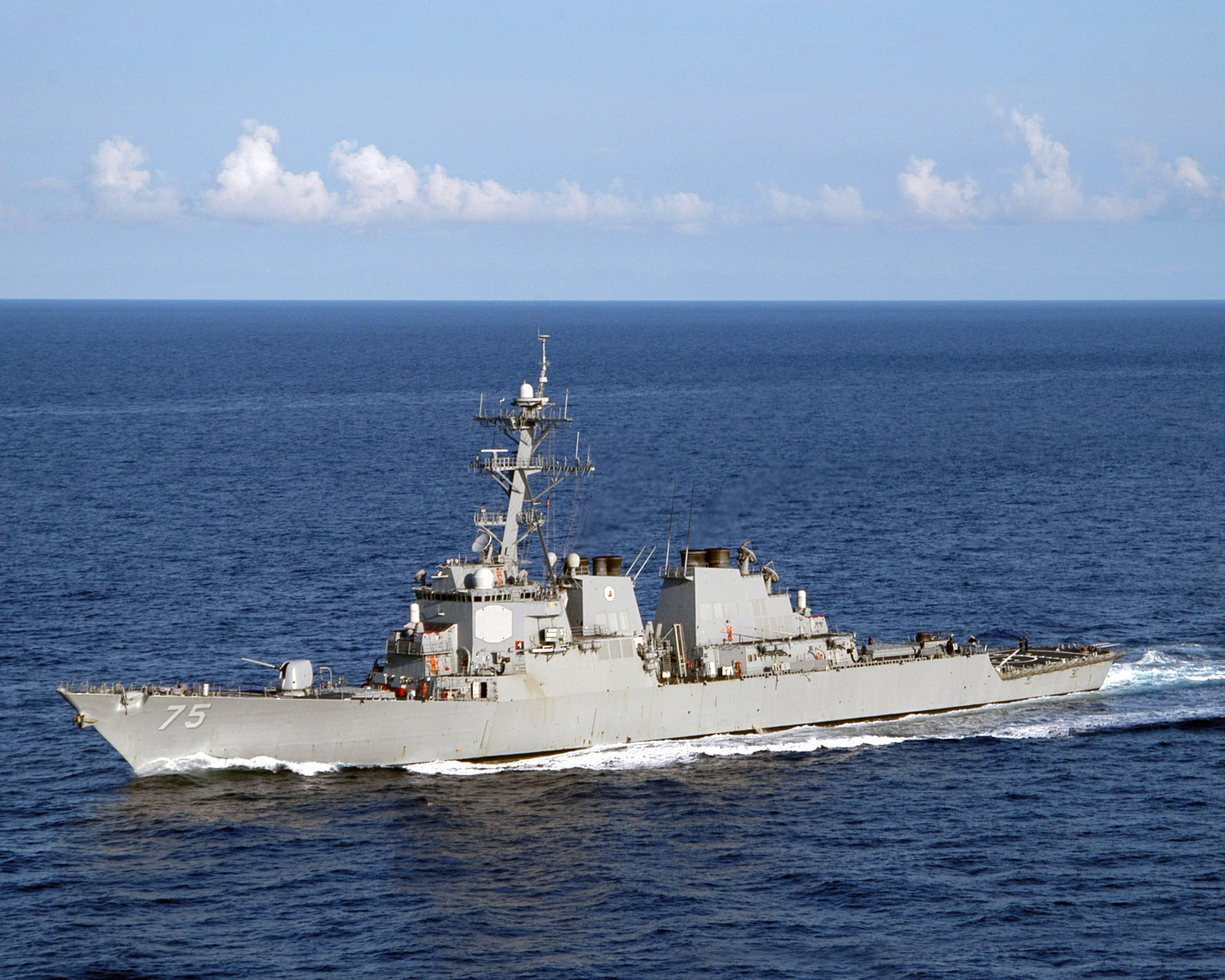 Atlantic Ocean (July 15, 2005) - The guided missile destroyer USS Donald Cook (DDG 75) conducts a close quarters exercise while underway in the Atlantic Ocean. Donald Cook is assigned to the USS Theodore Roosevelt Carrier Strike Group, currently conducting Joint Task Force Exercise (JTFEX). U.S. Navy photo by Photographer's Mate Airman Eben Boothby (RELEASED)